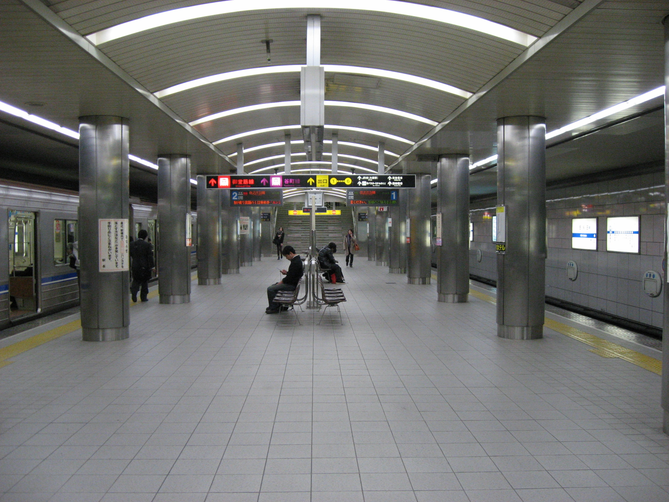 Platform of Nishi-Umeda Station